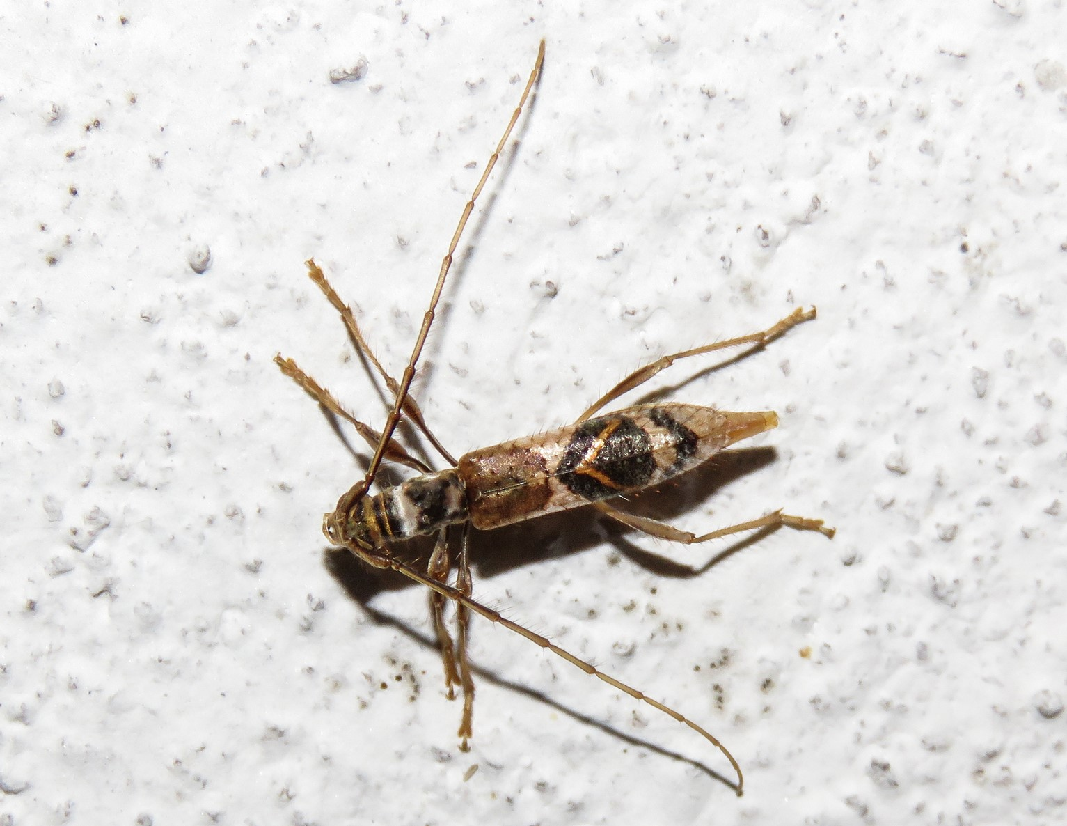 Compsibidion sommeri. Species of insect.